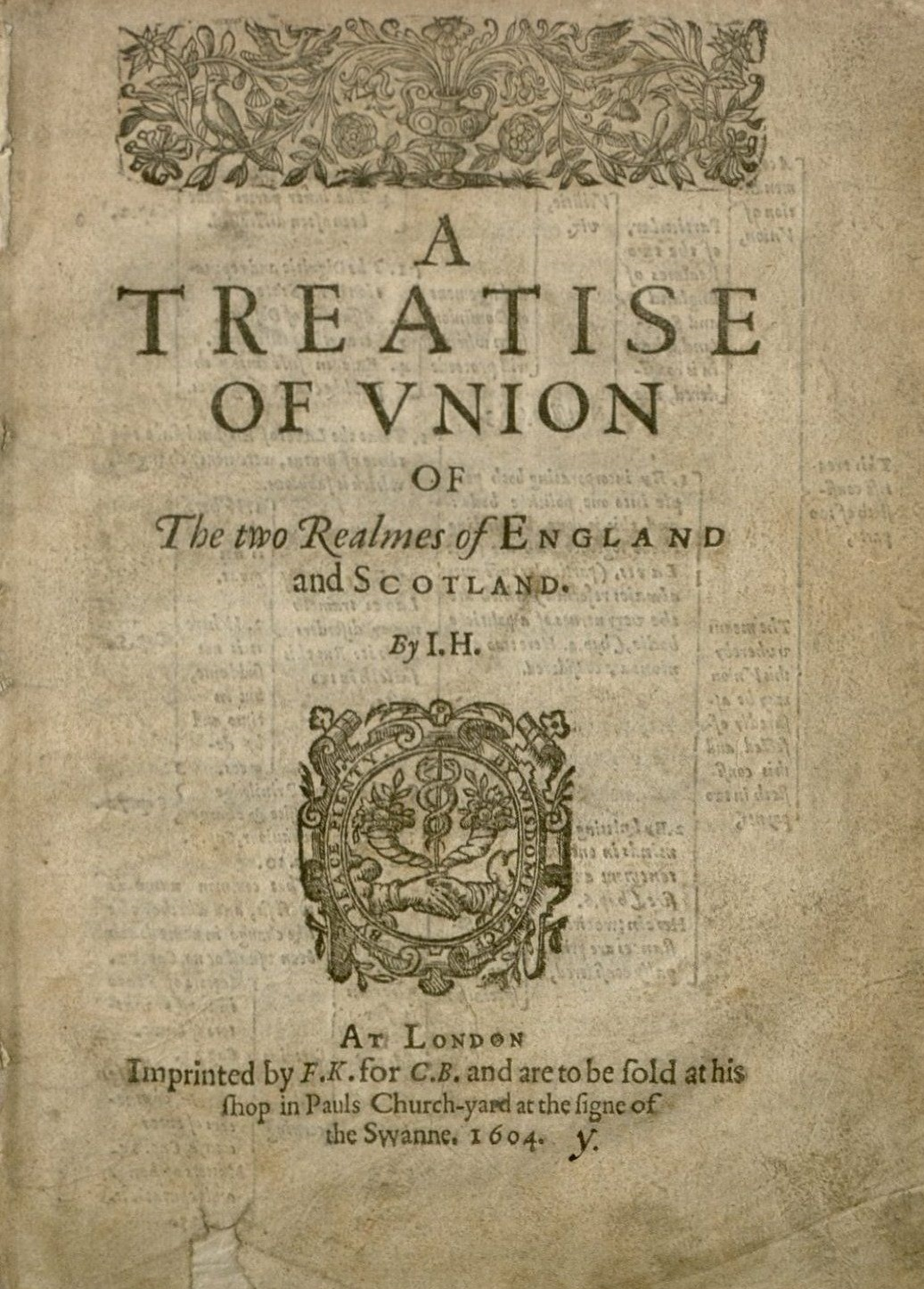 Title page for A treatise of union of the two realmes of England and Scotland, 1604, by Sir John Hayward (1564?-1627). STC 13011, Houghton Library, Harvard University